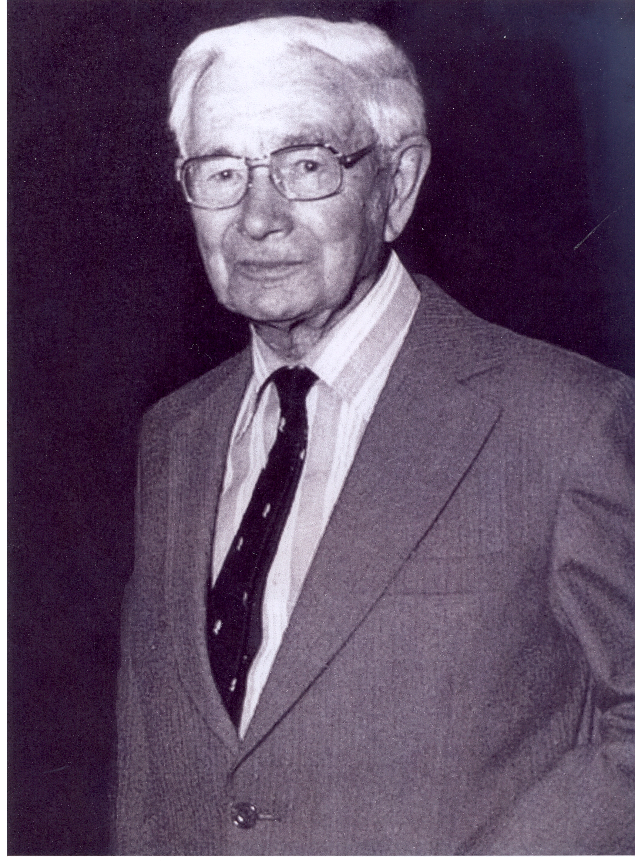 the first medical director of the new government hospital Dr John Herbert Thompson